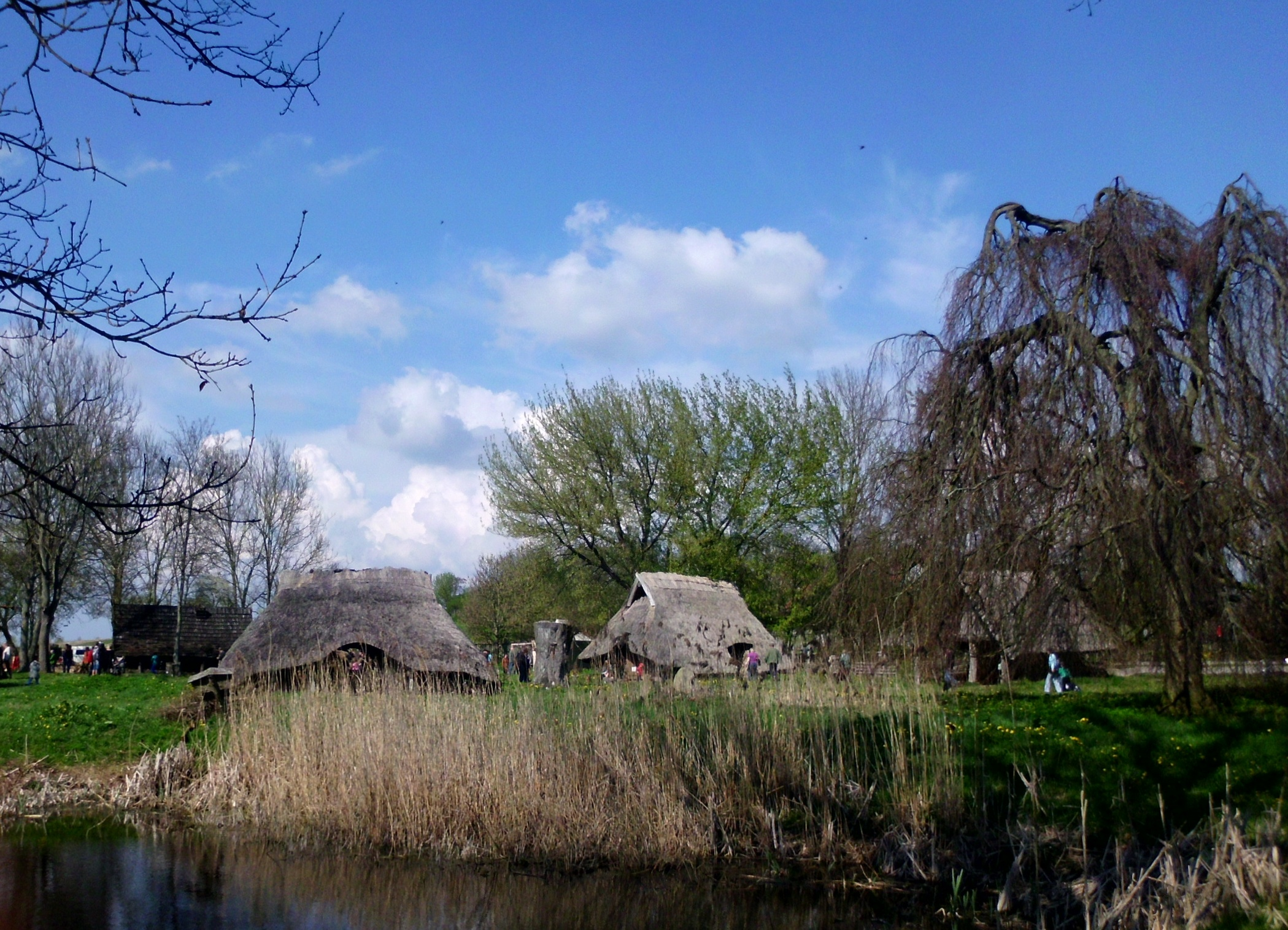 In the Archaeological open air museum "Slavic Village Passentin" , district Mecklenburgische Seenplatte, Mecklenburg-Vorpommern, Germany